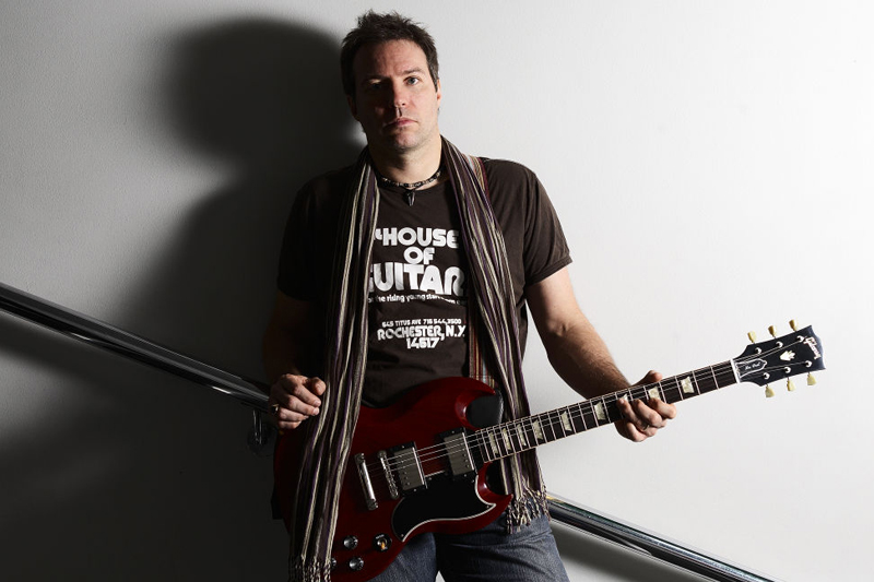 Ben Granfelt